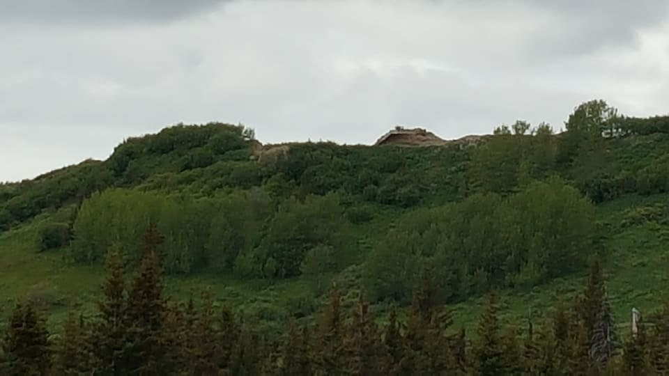 Ohlson Mountain, a former cold war radar site and landmark outside of Homer, Alaska. A few concrete slabs are all that remain of the radar facility.